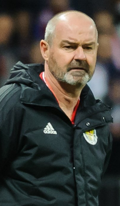 Scottish association football manager Steve Clarke on 10 October 2019, during the 2020 UEFA European Championship qualifying match between Scotland and Russia in Moscow.